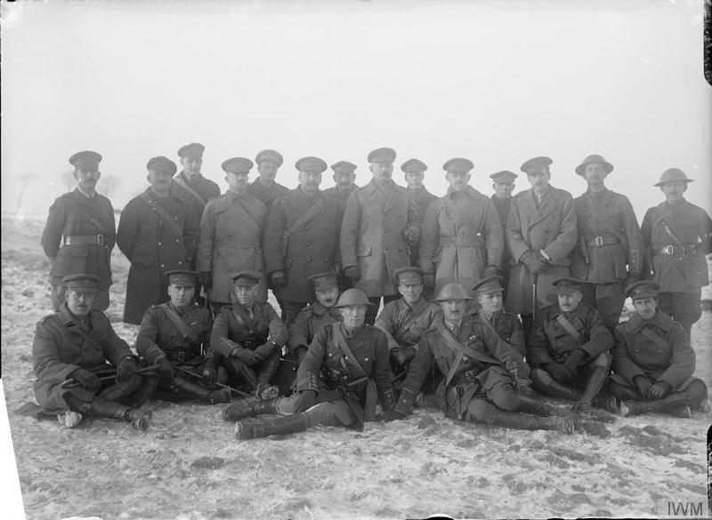 The Canadian Army on the Western Front, 1914-1918 Canadian officers pose for a group photograph at Pernes, December 1916. Standing in the centre is Brigadier-General Huntly Ketchen, commanding 6th Canadian Infantry Brigade.